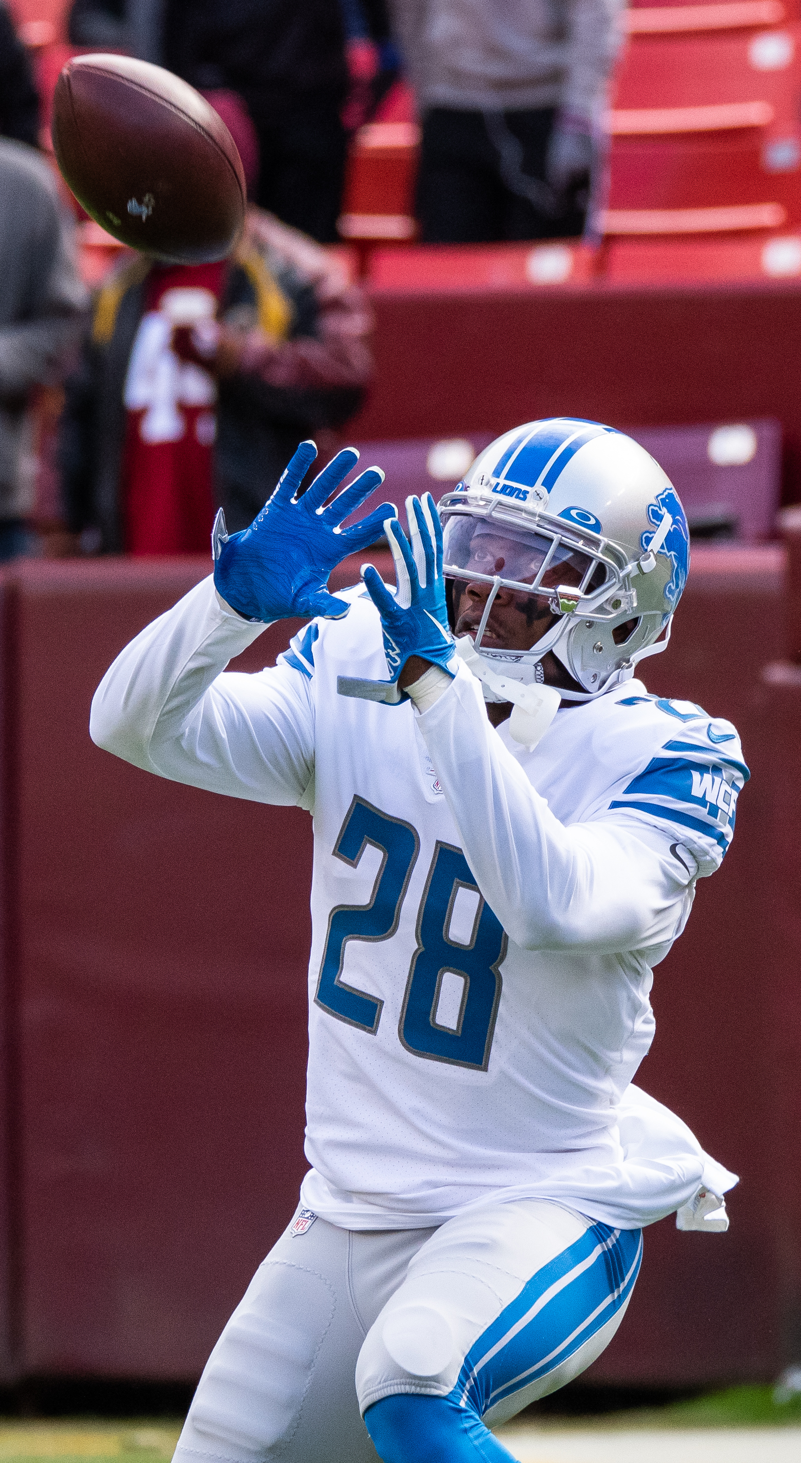 In 2019